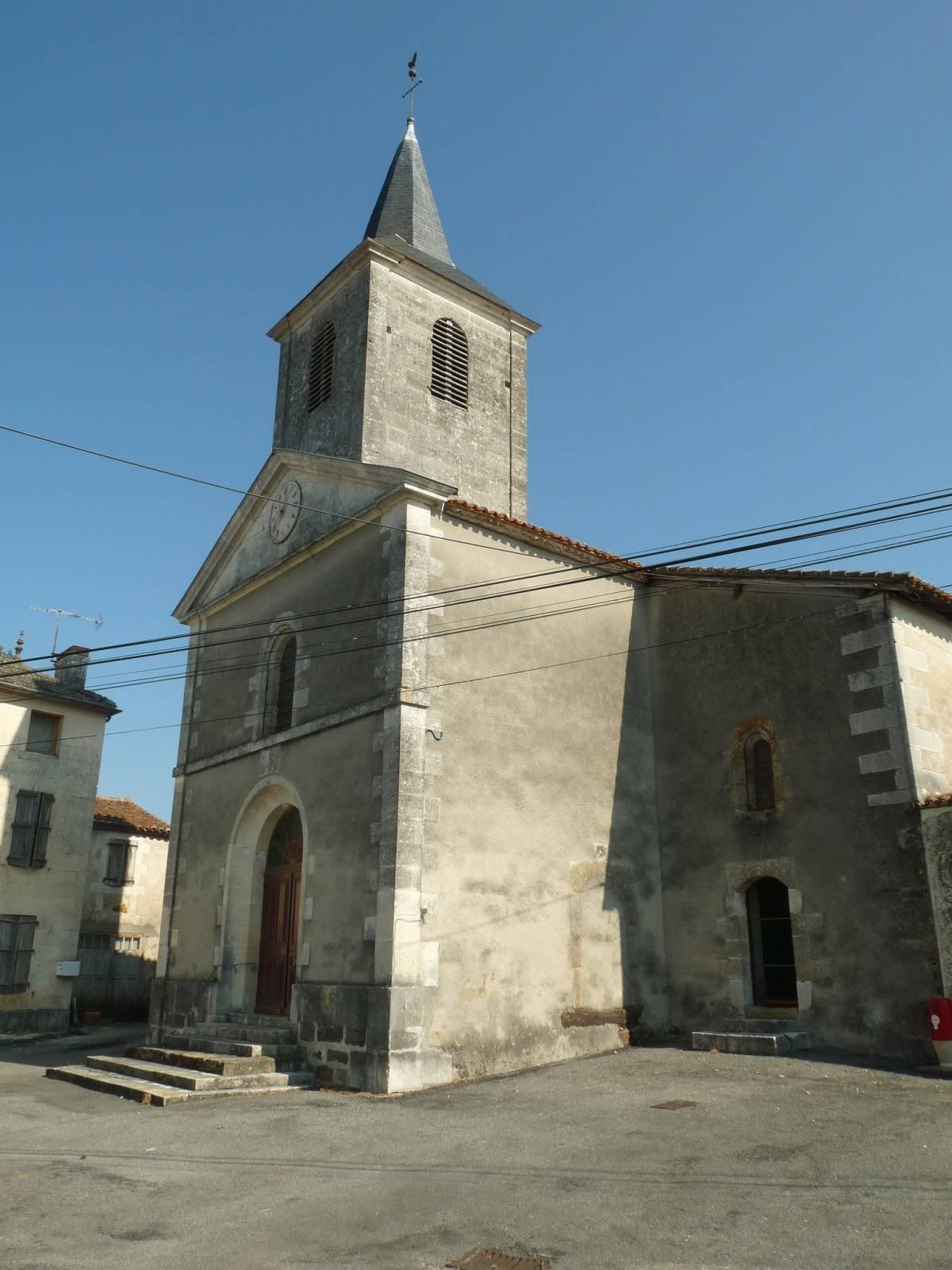 church of Ecuras, Charente, SW France